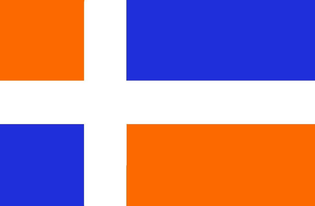 Flag of the Republican Party of Georgia